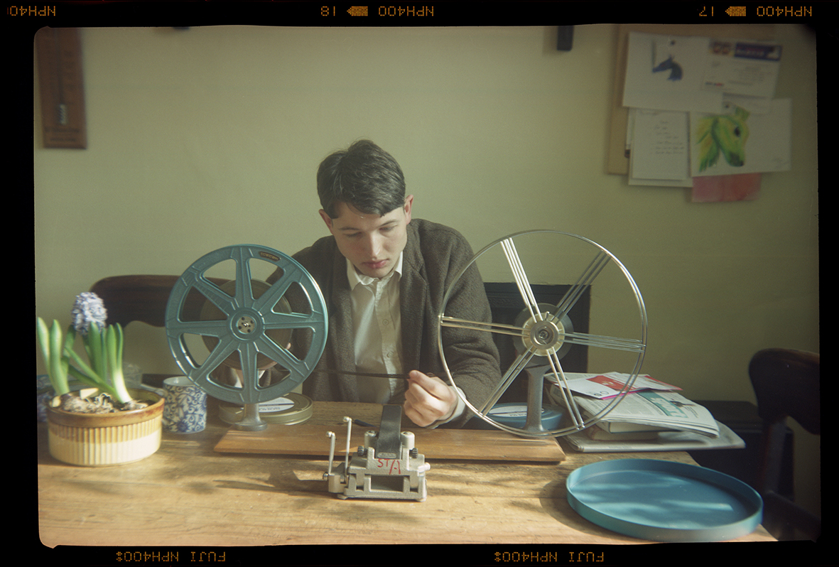 Portrait by Alan Dimmick